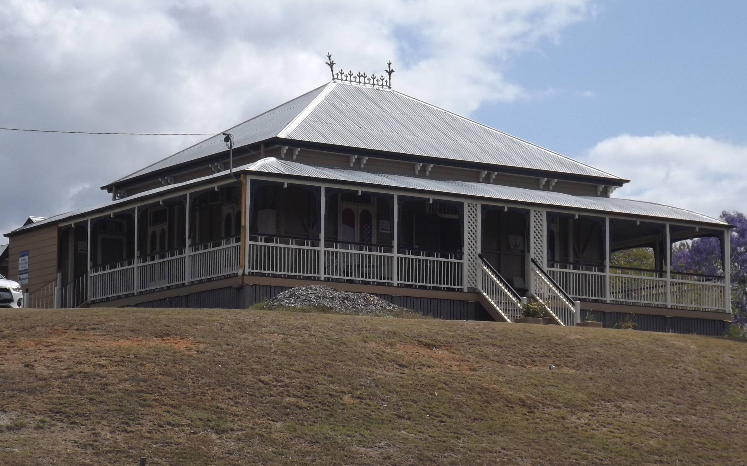 Photo of Ozanam House at West Ipswich, Queensland, Australia.